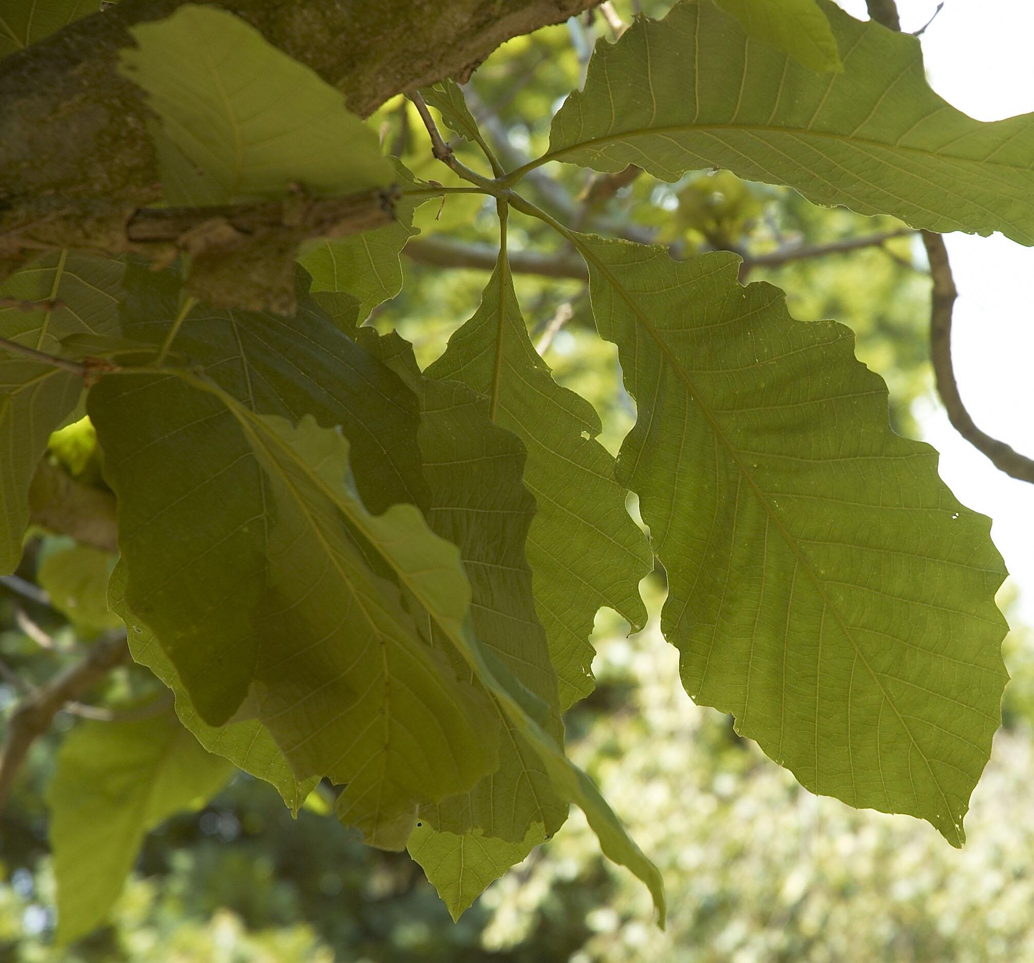 Quercus, aliena Blume, var. acuteserrata Maximowicz ex Wenzig. Arboretum Belmonte, Generaal Foulkesweg 94 of the university Wageningen, Netherlands